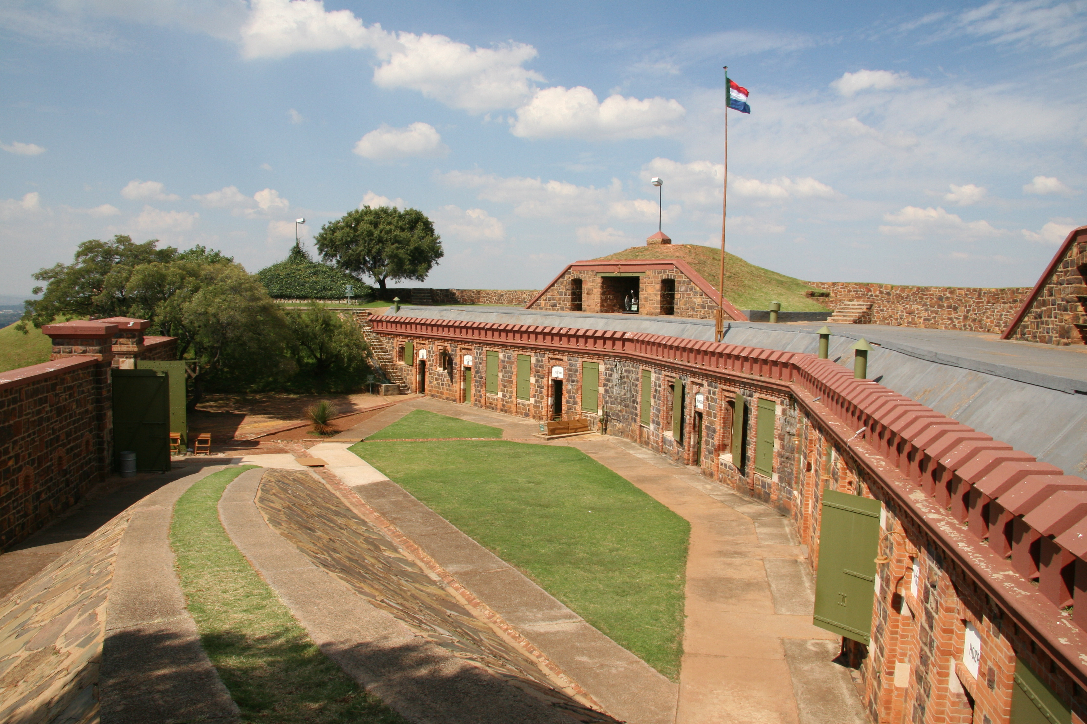 Fort Klapperkop - Inside the Fort